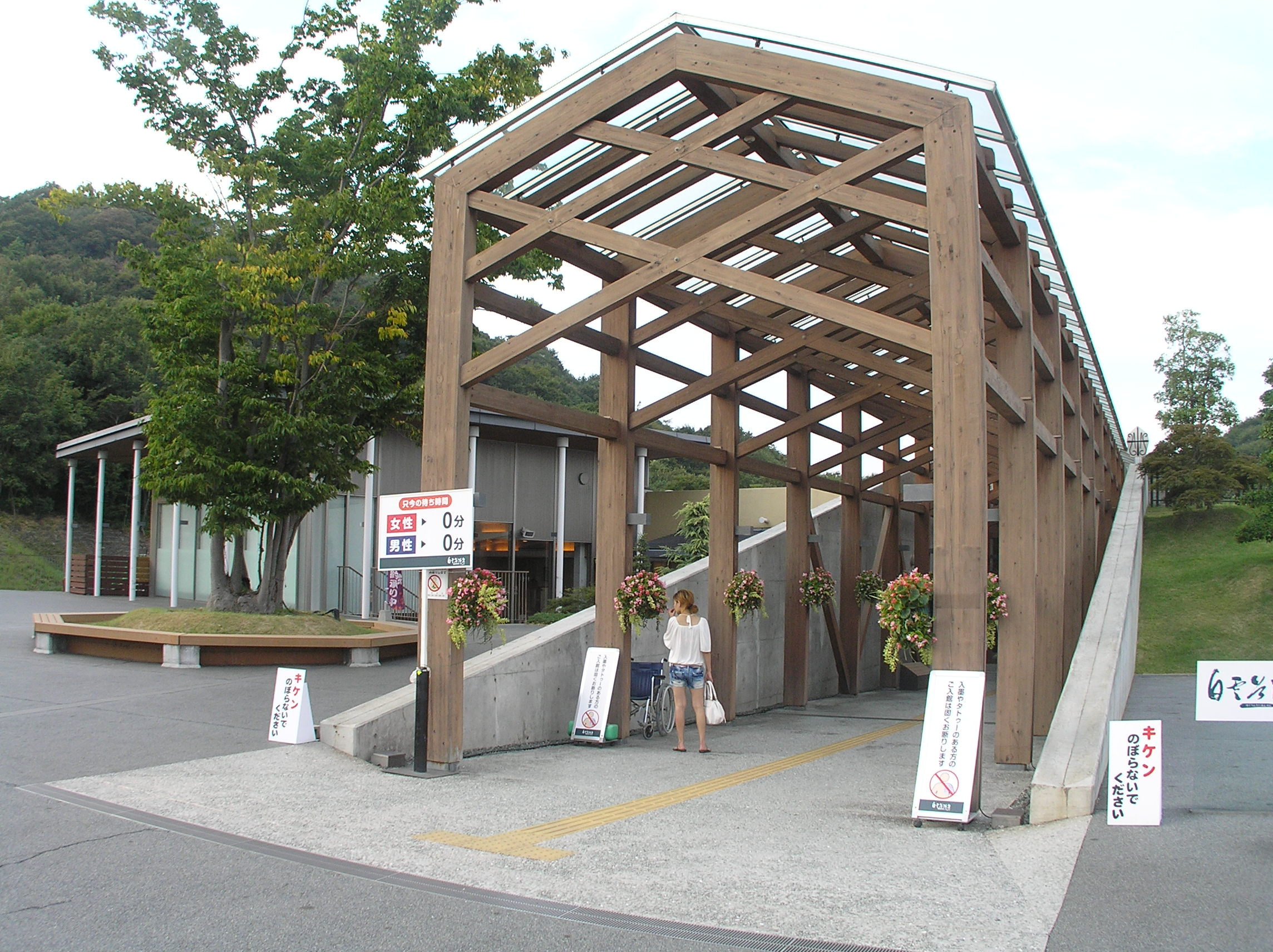 Haku-undani-onsen,Ono,Hyogo